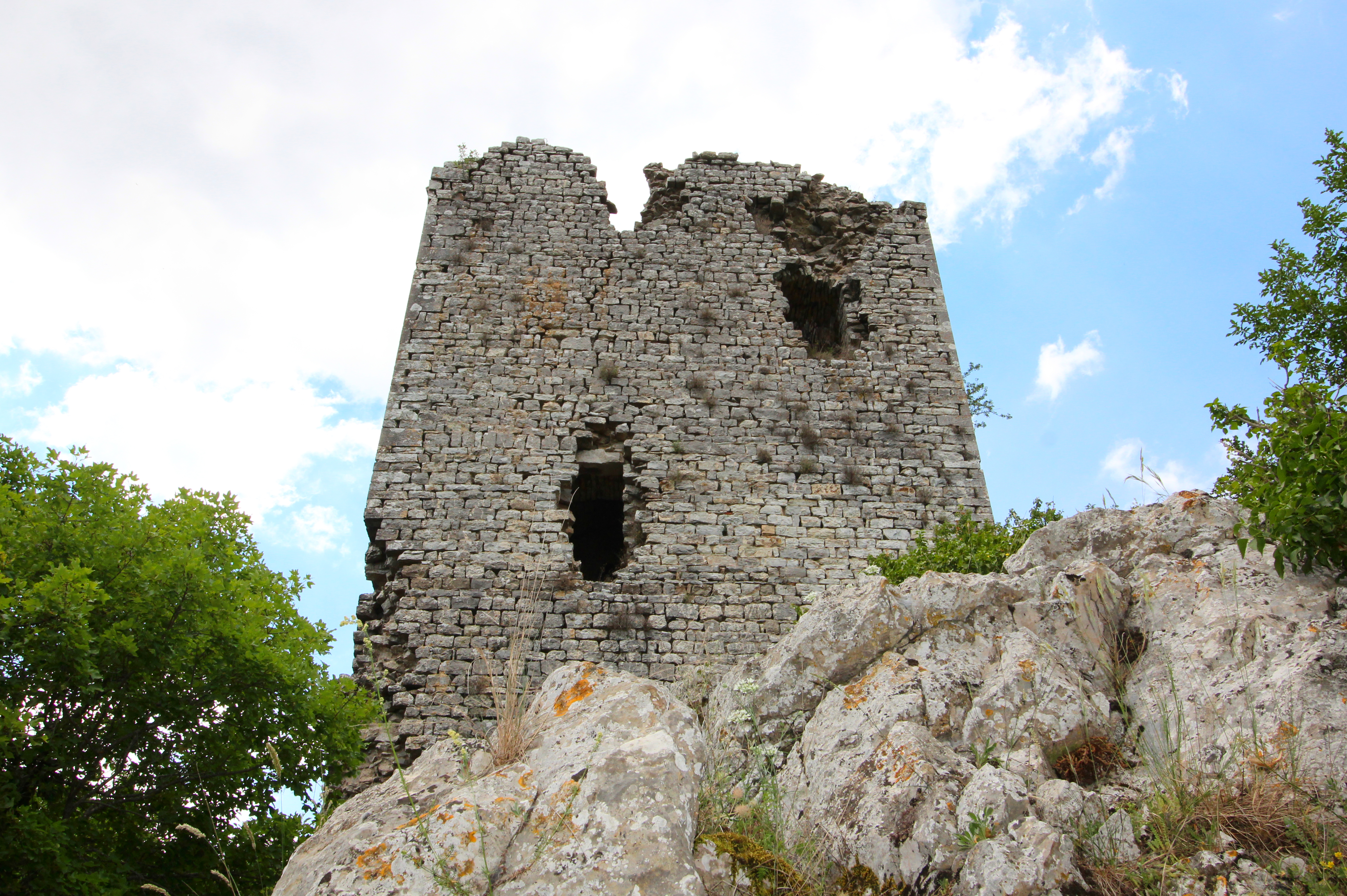 Castle Rocca di Campigliola, Campiglia d’Orcia, hamlet of Castiglione d’Orcia, Province of Siena, Tuscany, Italy